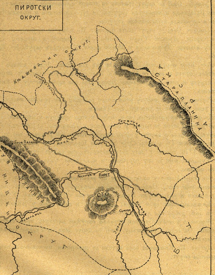 Districts of Serbia 1900